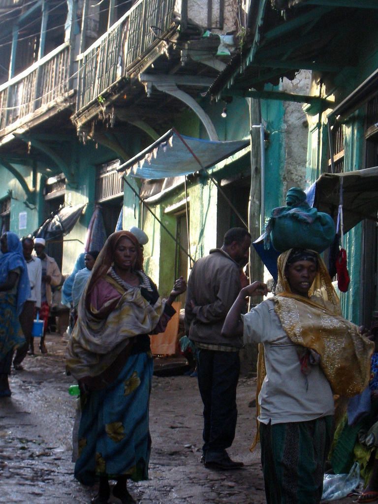 A street scene in Harar, Ethiopia